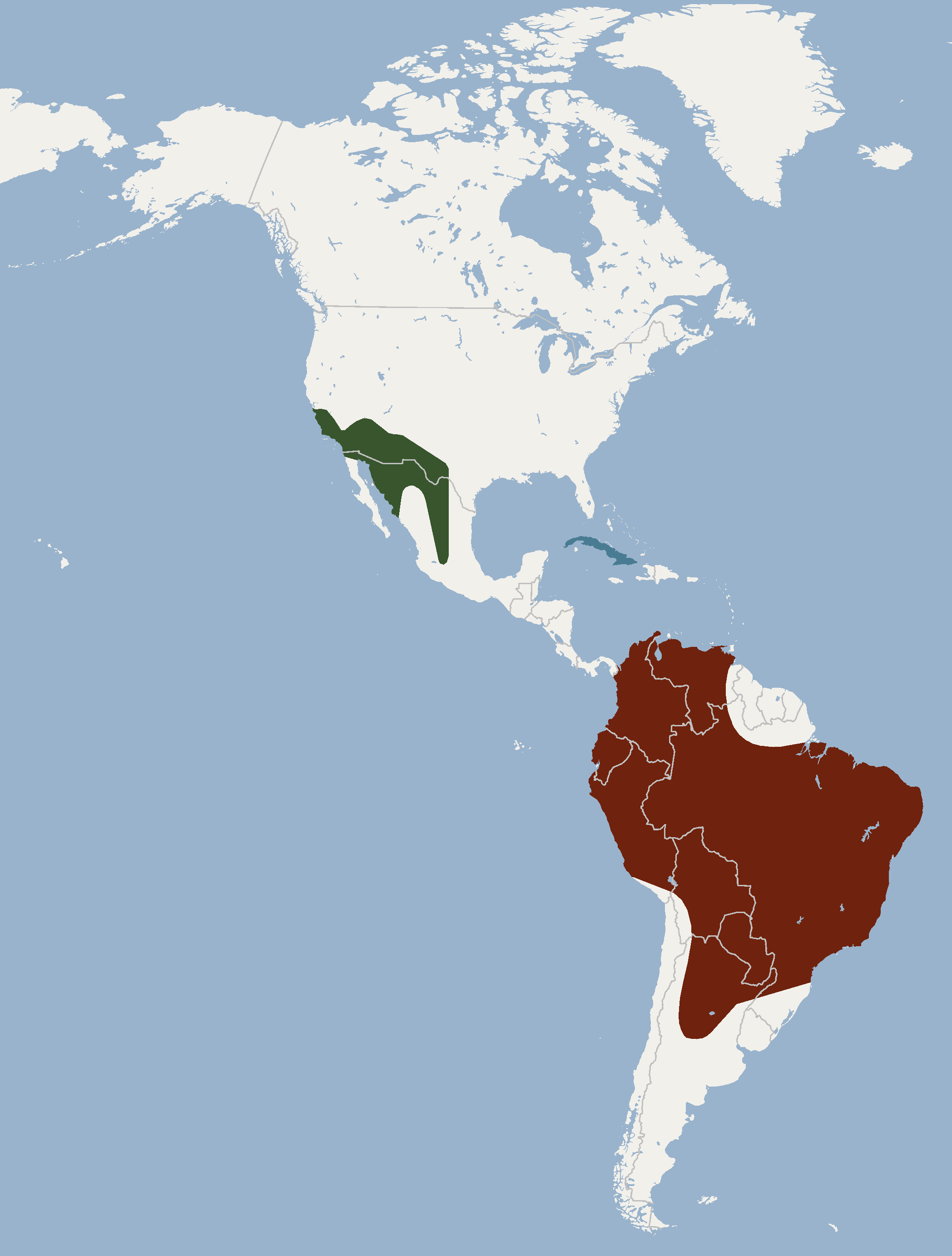 According to Kays & Wilson and Suckow & Al., 2010 for the southernmost part of its range E.p.perotis E.p.californicus E.p.gigas